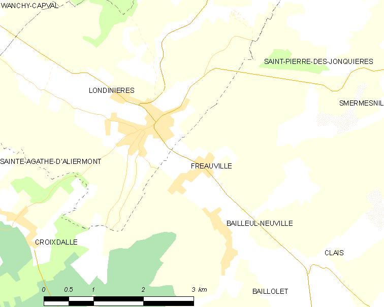 Map of French municipality Fréauville